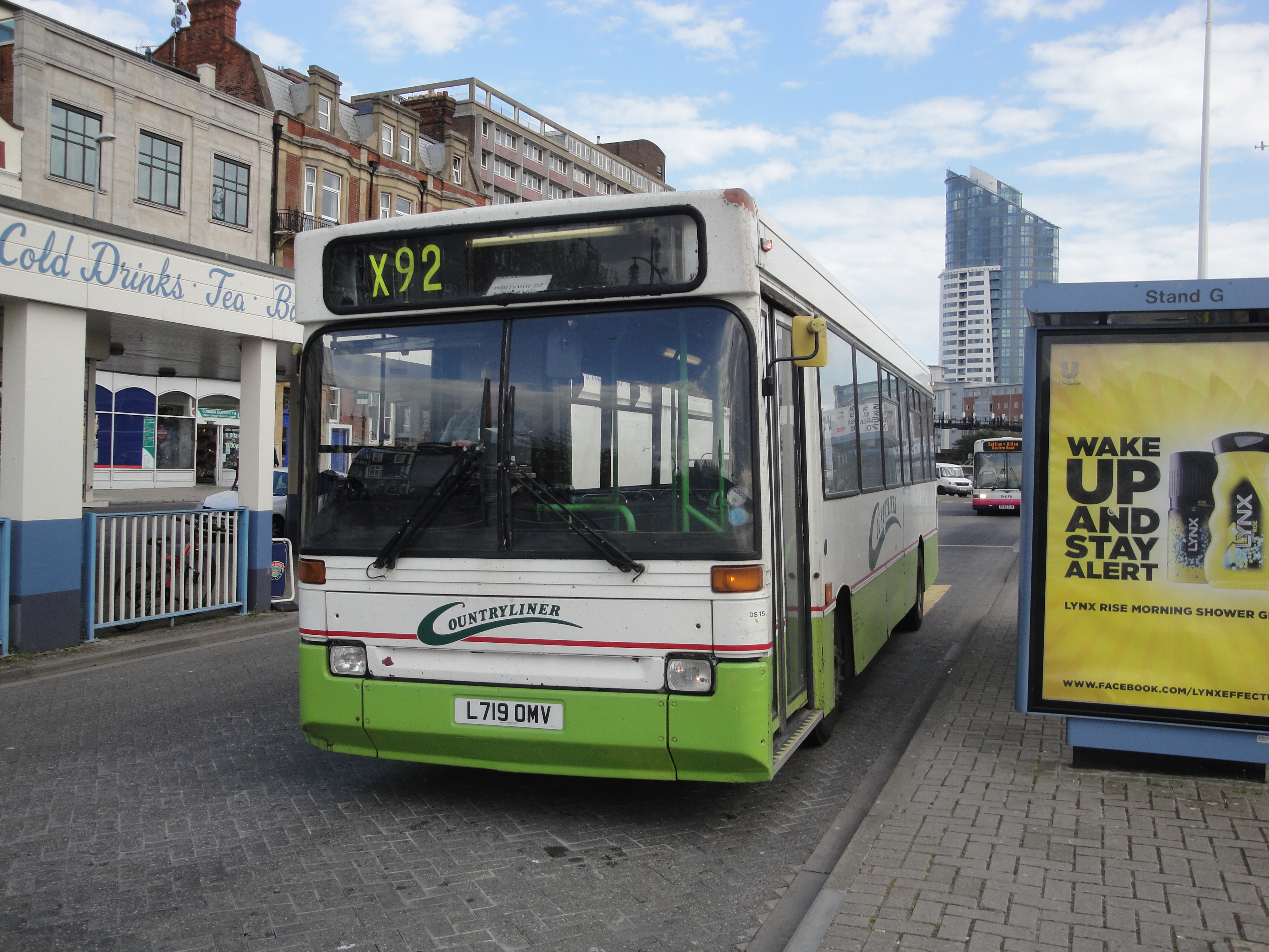 Countryliner DS15 (L719 OMV), a Dennis Dart/Plaxton Pointer in The Hard Interchange, Portsmouth, Hampshire on route X92. This bus was new to Metrobus in April 1994, latterly with fleet number 719. It arrived at Countryliner after a spell with Compass Travel. At the time of the photo, route 92 ran from Midhurst to Petersfield via Trotton, alongside route 91 running between Midhurst and Petersfield via South Harting. The routes run from Monday - Saturday. On Saturdays, an extra shoppers journey runs on route 92. This is the X92, which continues from Petersfield to Portsmouth, arriving at around 2.30pm, with a return journey at 5.10pm.